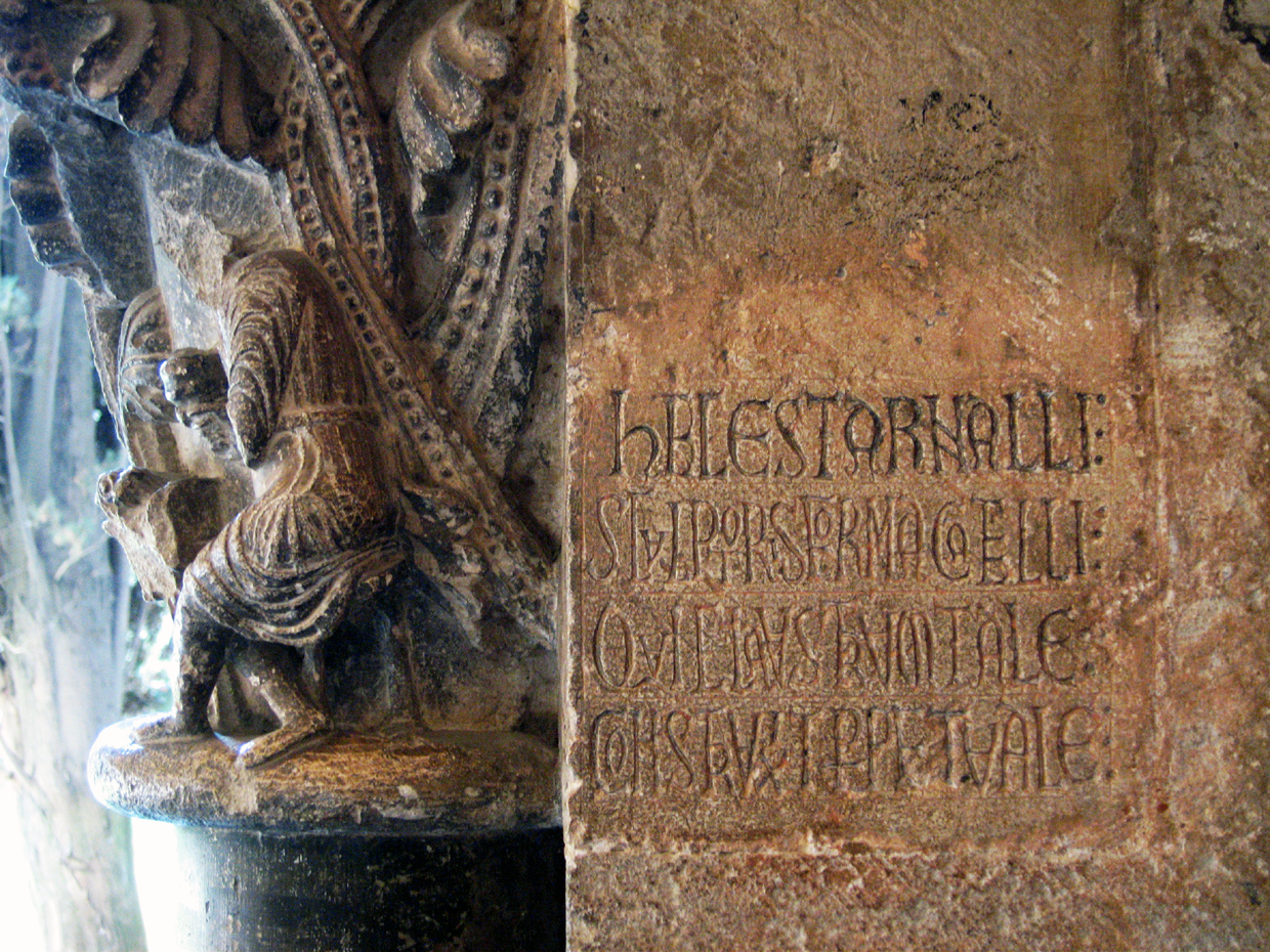 Detail of a capital of the cloister of the monastery “Monestir de Sant Cugat” in Sant Cugat del Vallès (Catalonia).